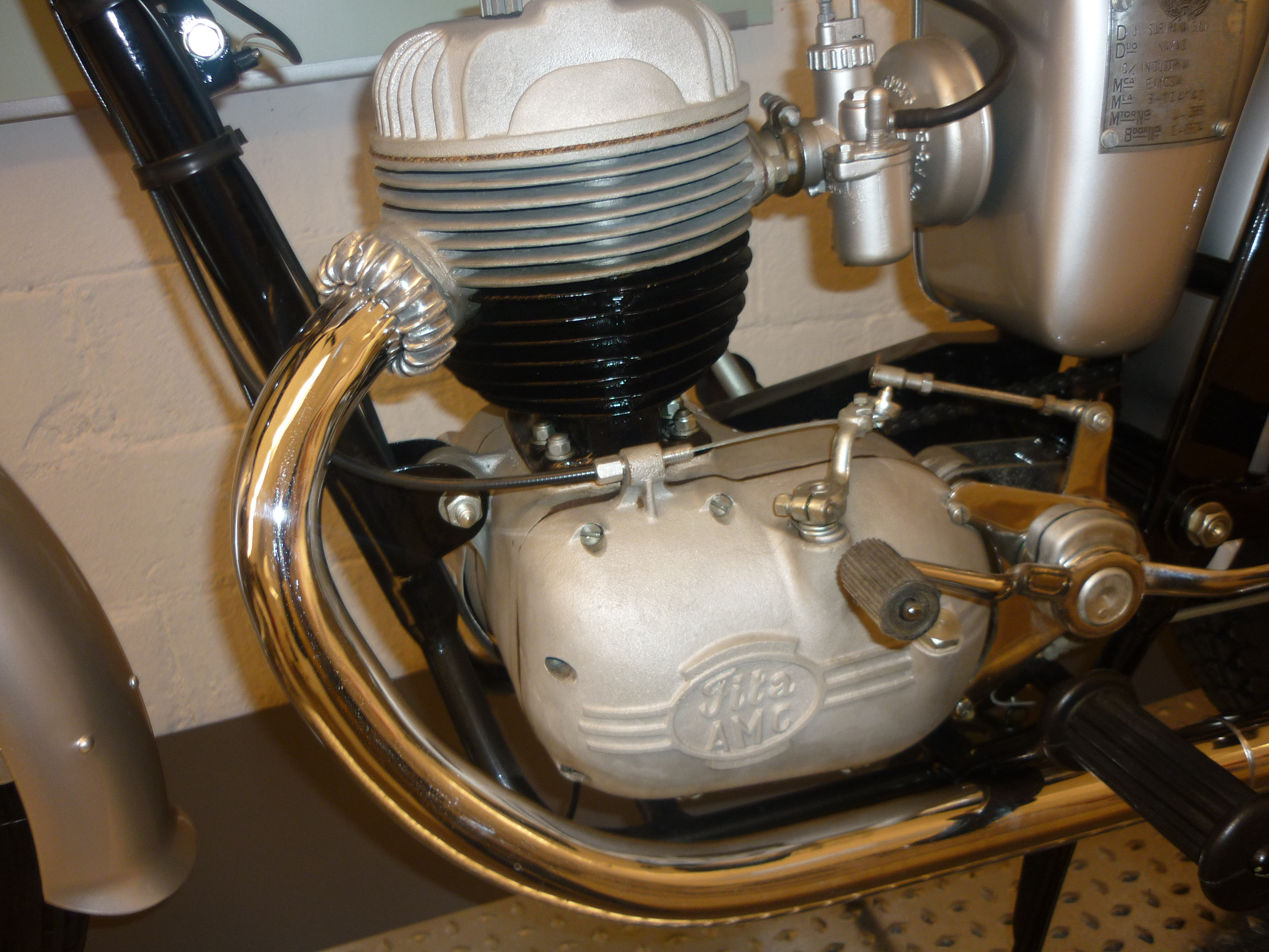 Fita-AMC engine, 175cc, on a Evycsa Brisa from 1955. Museu de la Moto de Barcelona (Catalonia).